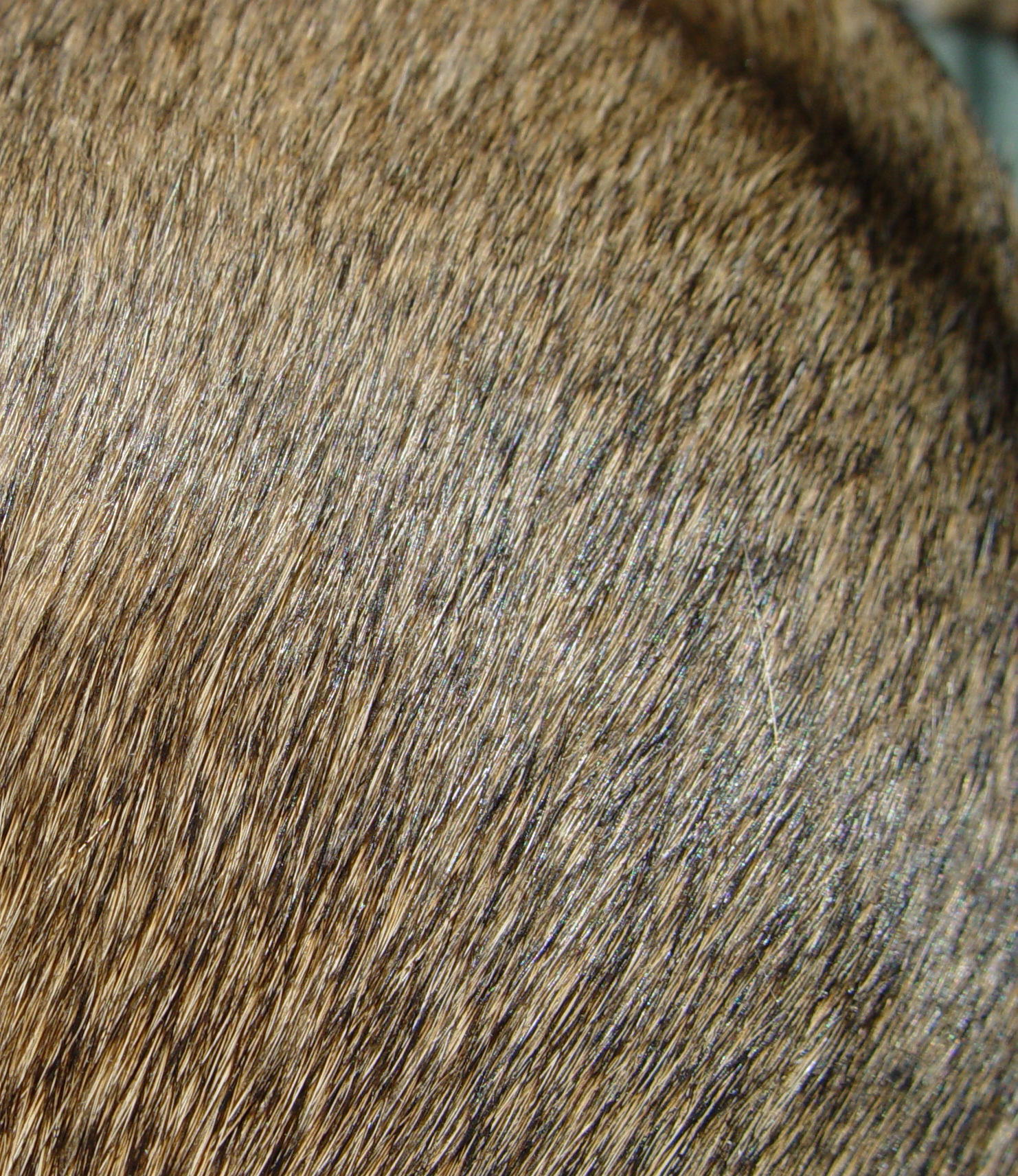 The fur of a brindle Greyhound